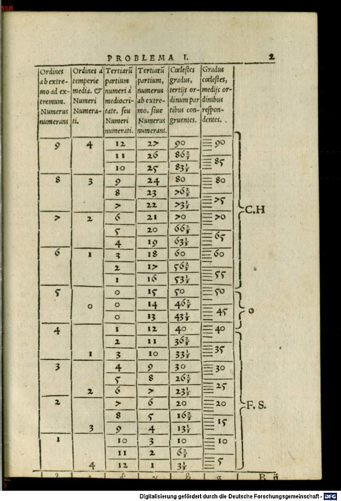 A conceptual scale of temperature aligning (1) Galen's idea of four degrees of heat and four of cold around a central neutral point; (2) a single 1-9 scale of heat; and (3) latitude, from the warm equator to the cold arctic